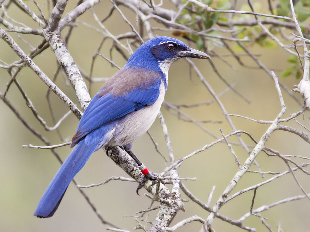 Aphelocoma insularis, Santa Cruz Island in the Channel Islands National Park, California, USA.